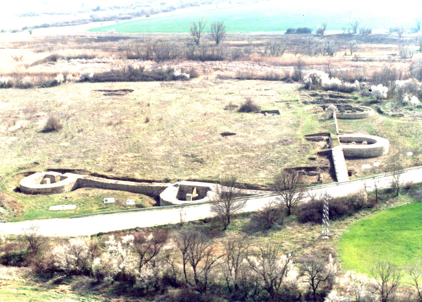 Aerial photo of the late antiquity fortress "Kovachevsko kale" and its revealed fortification system. April 2007